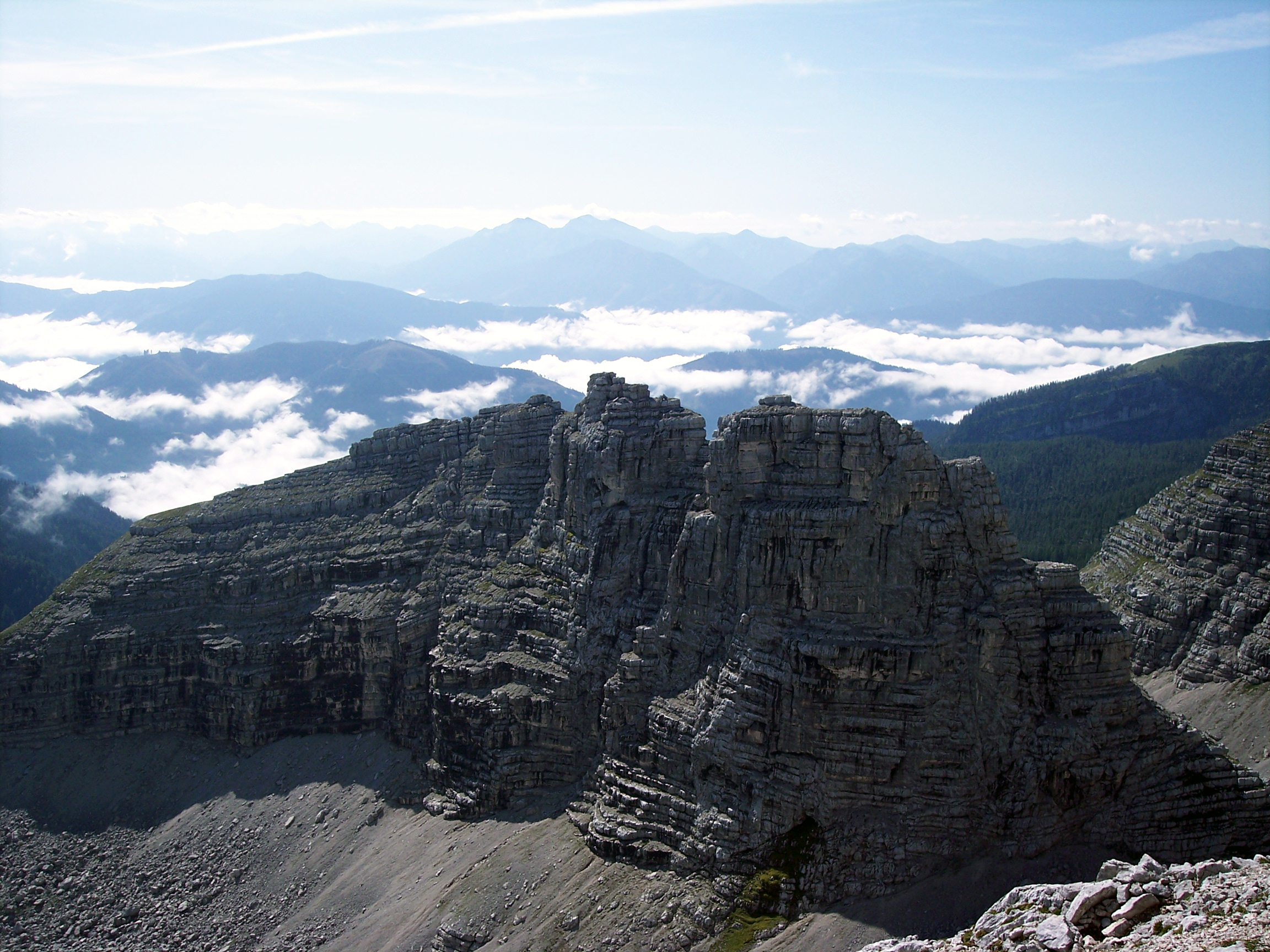 Ramesch in the Warscheneckgroup, Totes Gebirge